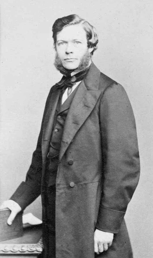 Cartes de visite photograph of Samuel Osborne Habershon